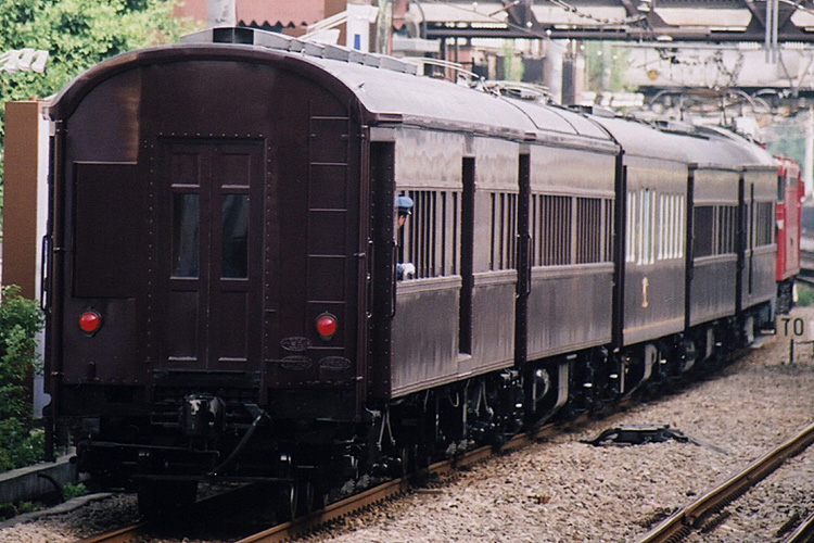 Japanese National Railway's special train for royal person. The 3rd car of this picture is special car for royal person.